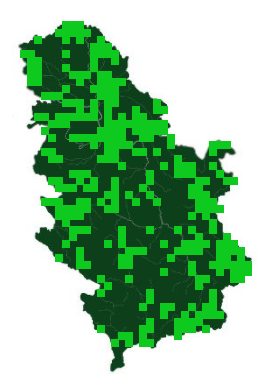 Pontia edusae - map of distribution in Serbia